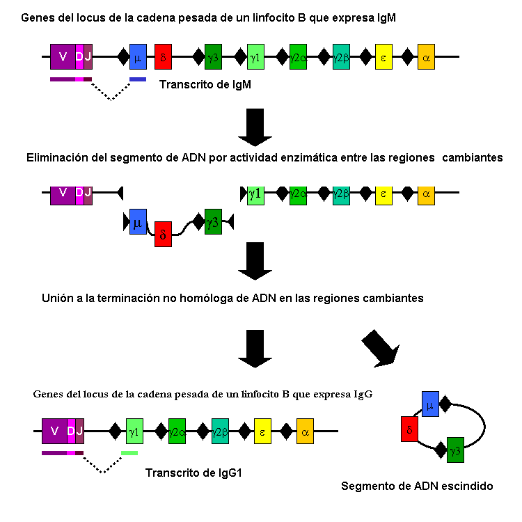 Spanish version of Image:Class switch recombination.png